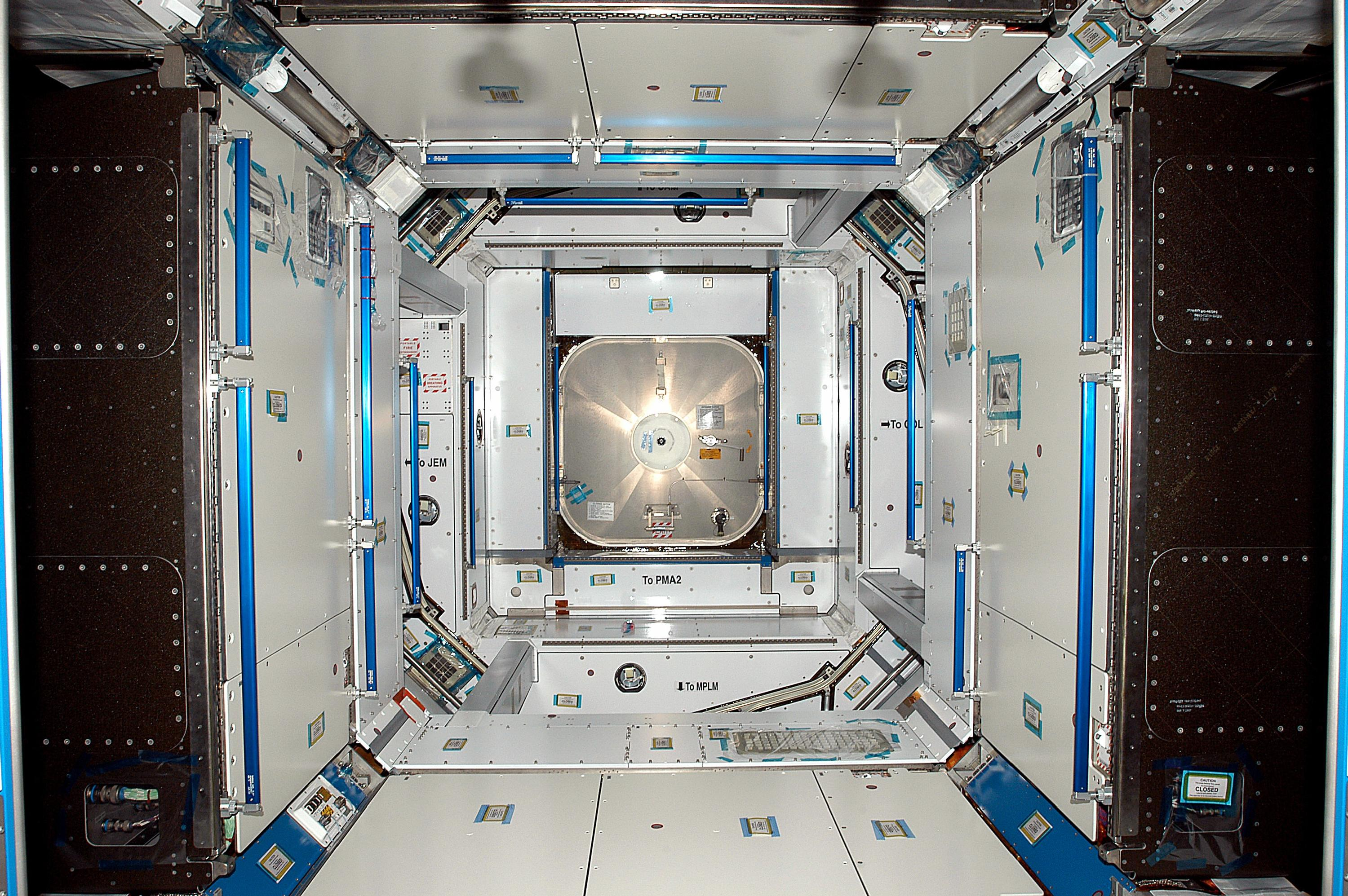 Interior of the International Space Station's Harmony node, after it arrived at the Kennedy Space Center